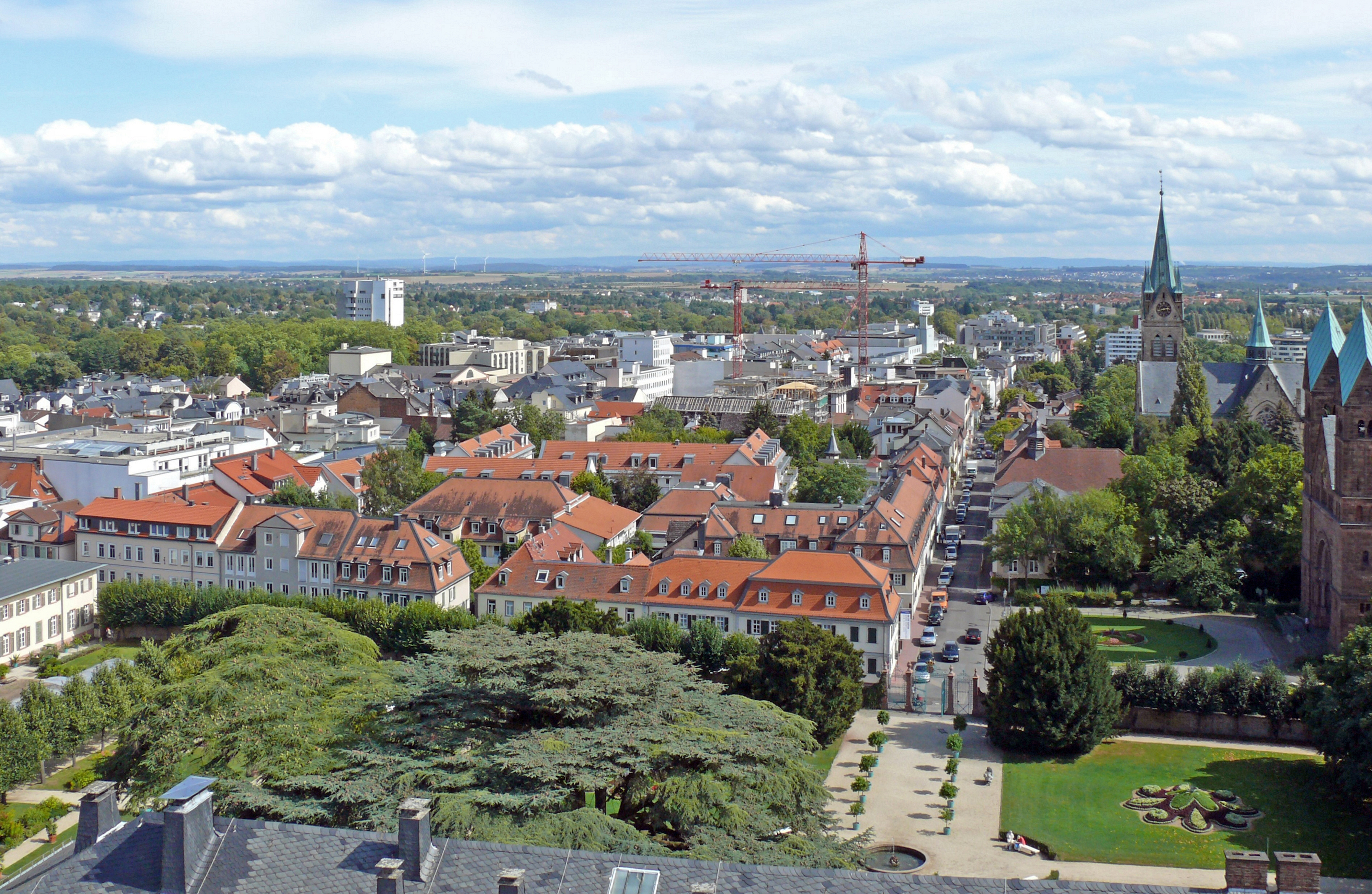 "Dorotheenstrasse" (with "Sinclair-House" at corner) in Bad Homburg with centre of the city, Hochtaunuskreis, Hesse, Germany